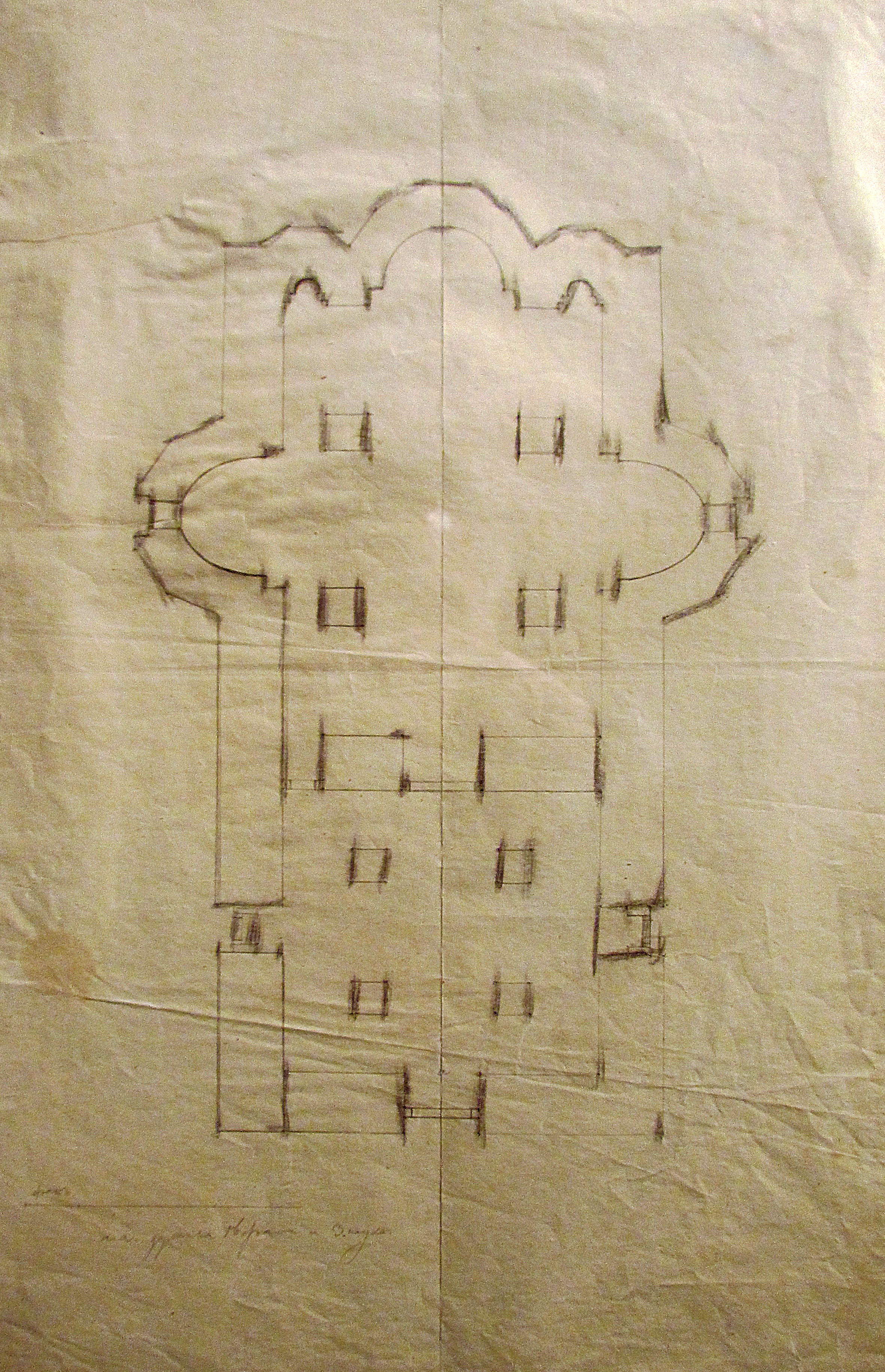 Ground plan of church in Manasija monastery by Dimitrije Avramović, 1846